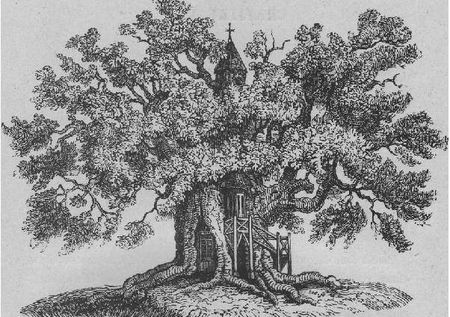 Oak tree of Allouville engraved by Eustache-Hyacinthe Langlois after the drawing by botanist Alexandre Louis Marquis (1777-1828)